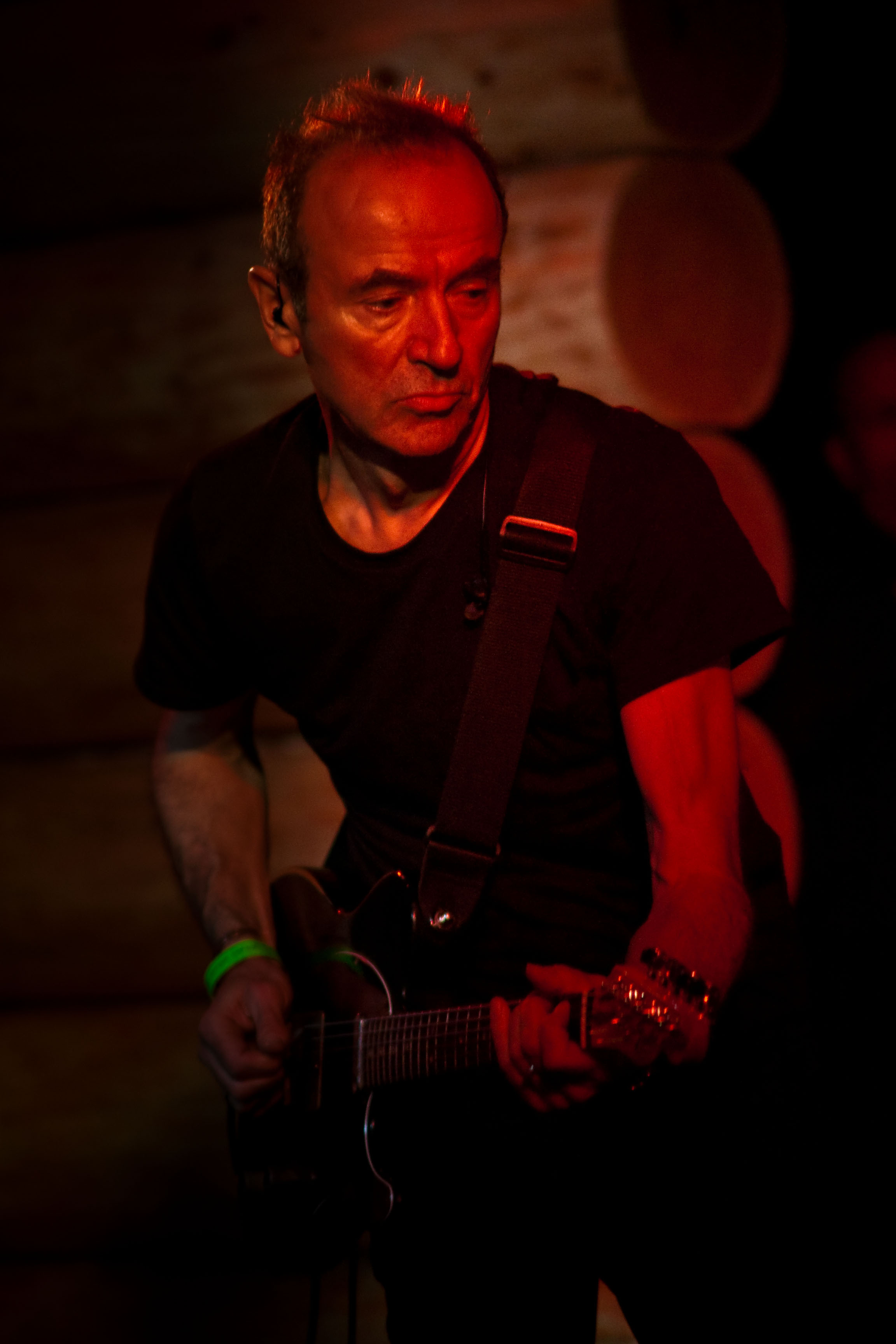 Hugh Cornwell live in 2010 (photo courtesy of Micah).)